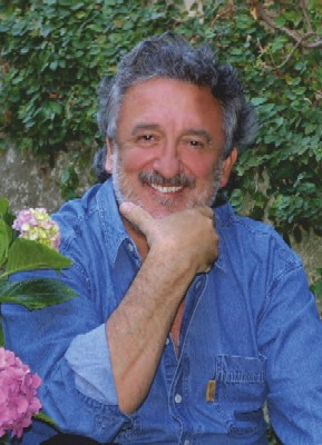 Roby Carletta